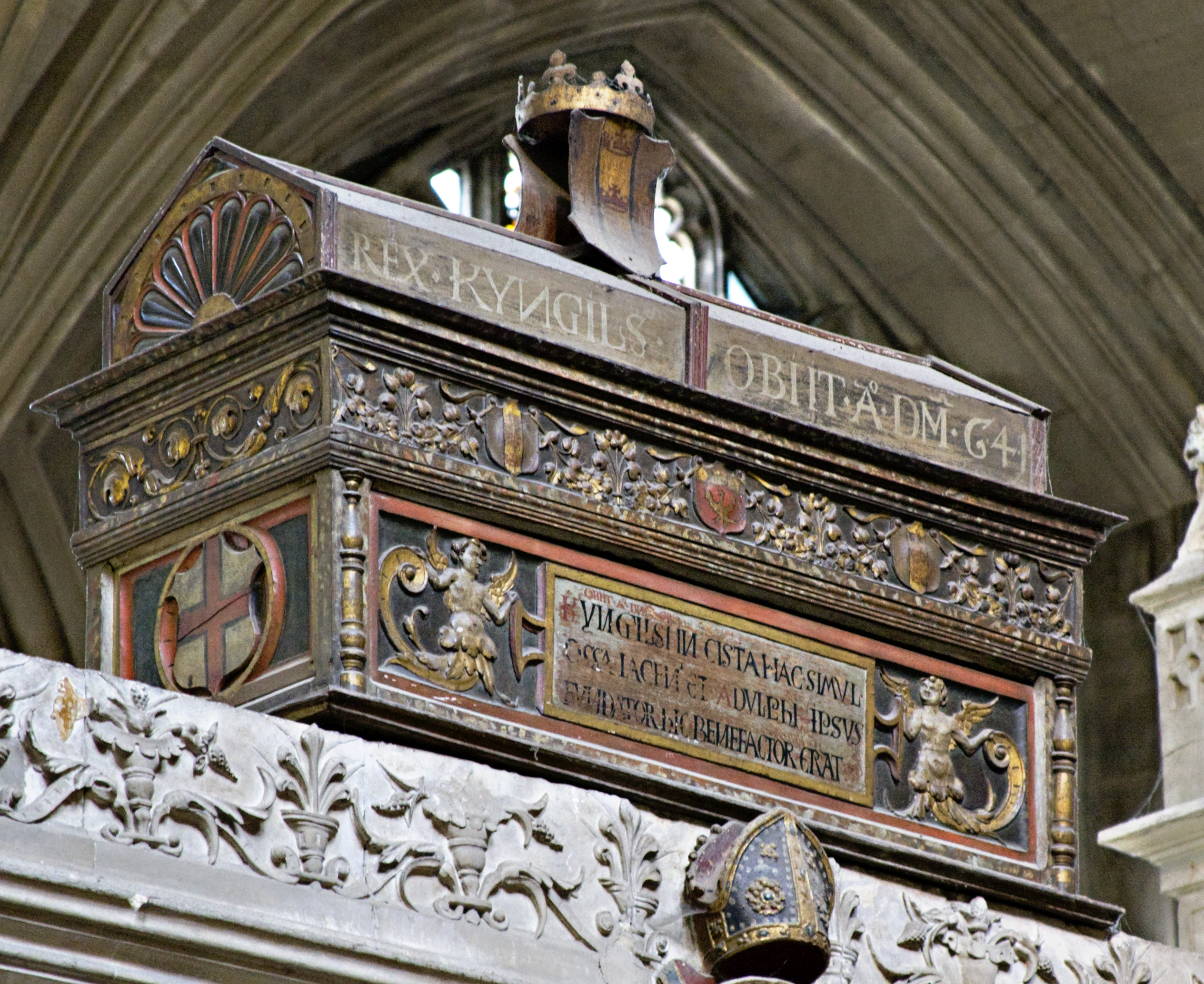 Mortuary chest from Winchester Cathedral, Winchester, England. This is one of six mortuary chests near the altar in the Cathedral, this one purports to contain the bones of Cynegils of Wessex, king of Wessex, who died about 643 AD. See here for more details.